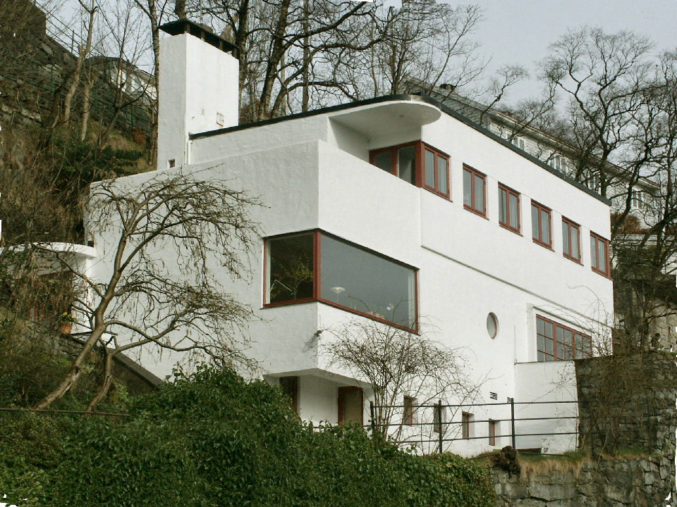 Residence of Lou Eide, Bergen, Norway. Architect Per Grieg 1943. Example of functionalist architecture in Norway.